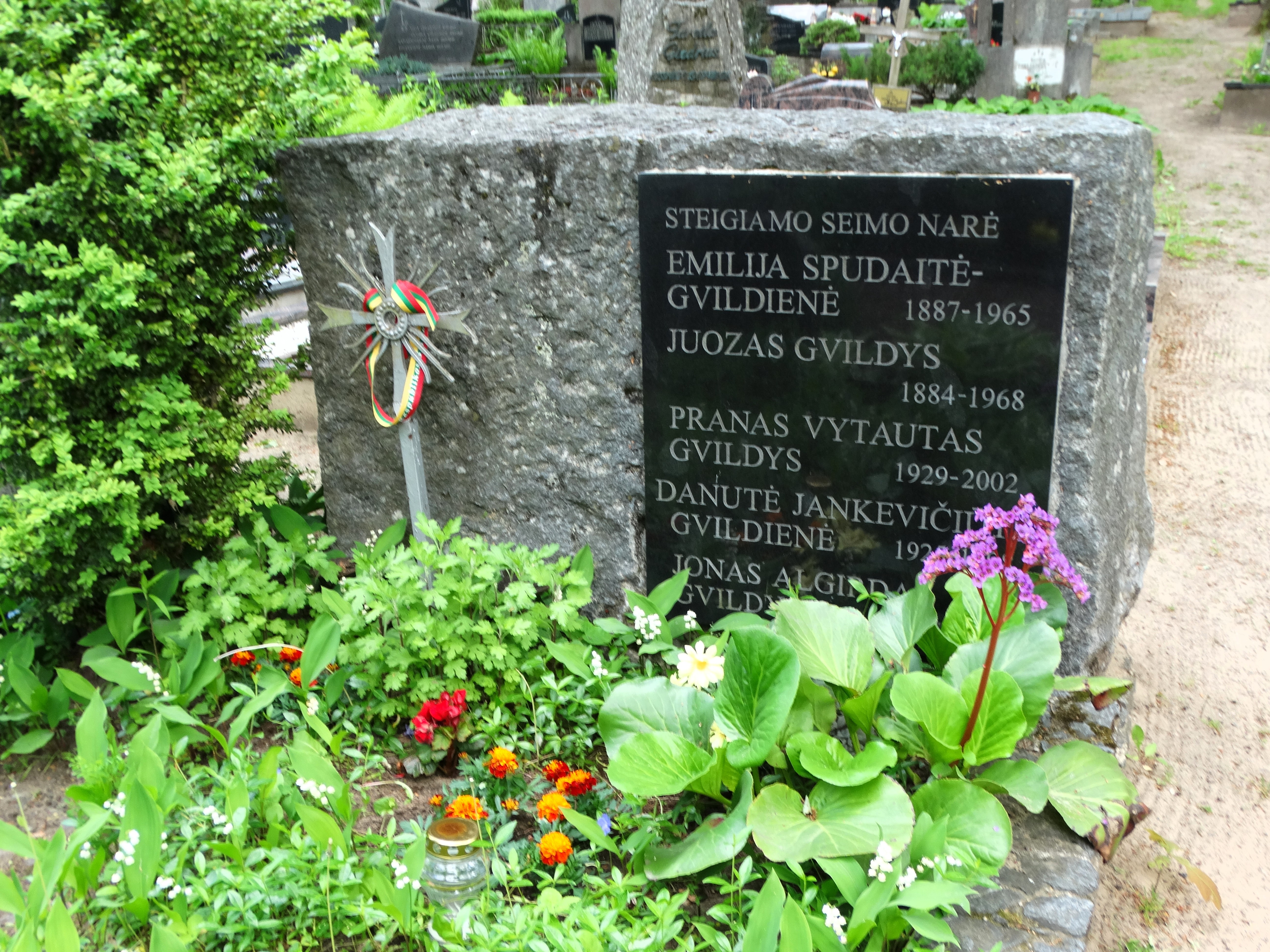 Grave of Emilija Spudaitė-Gvildienė, cemetery in Panemunė, Kaunas, Lithuania